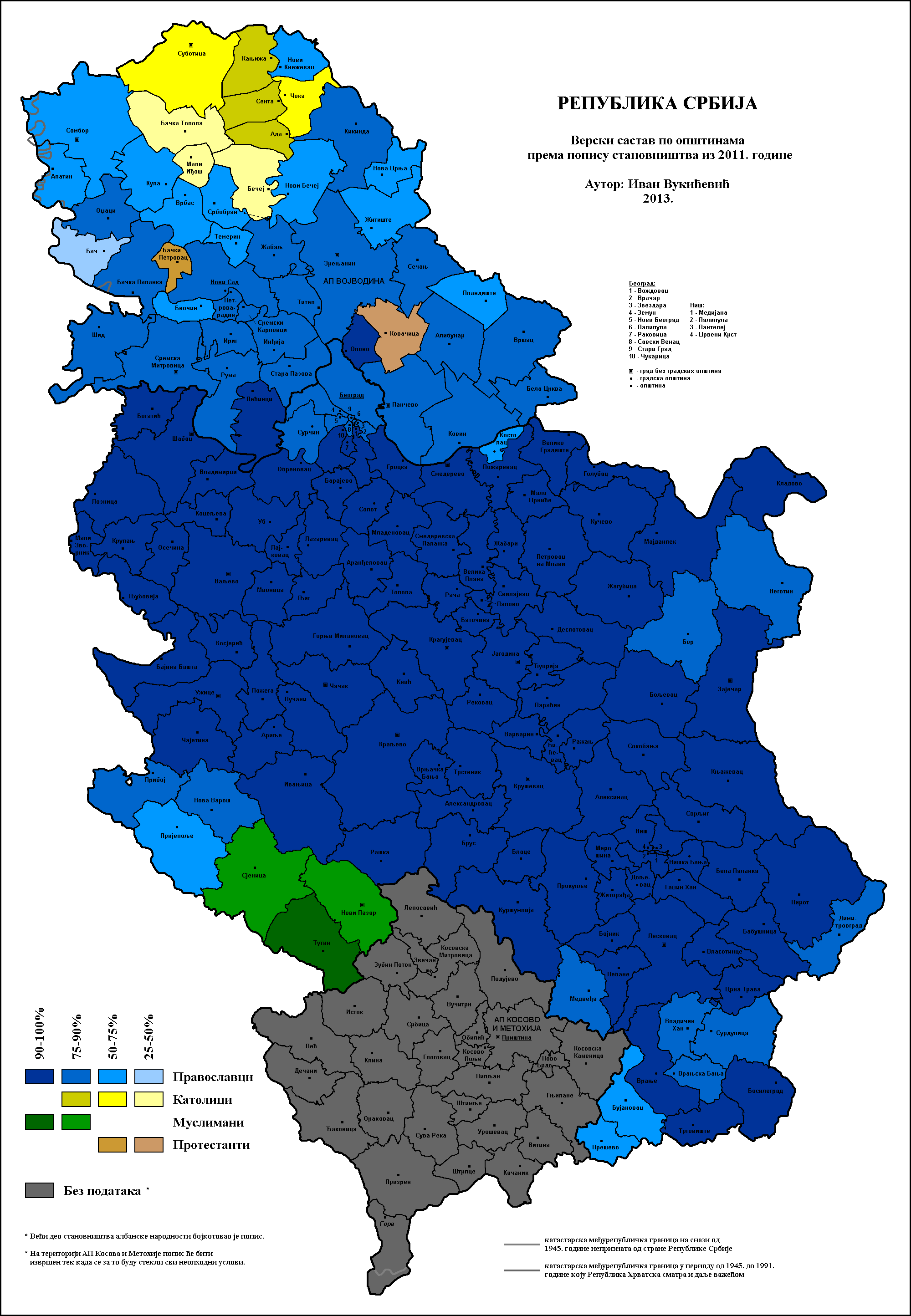 Religious structure of Serbia by municipalities 2011.